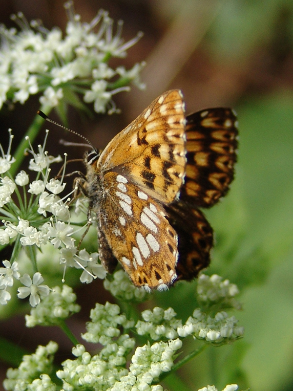 Duke of Burgundy (Hamearis lucina)